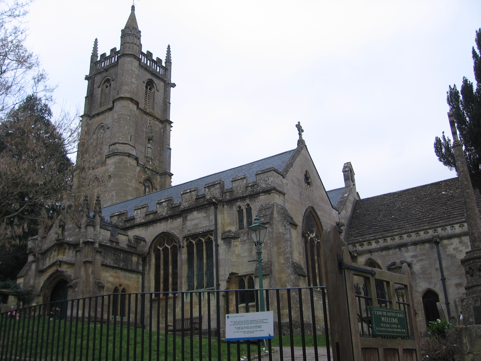 St. John the Baptist, Batheaston